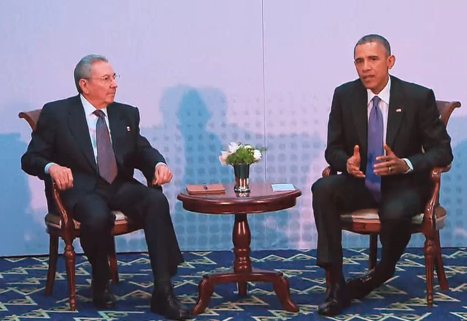 Cuban president Raúl Castro and US president Barack Obama meet in Panama on 4-11-2015